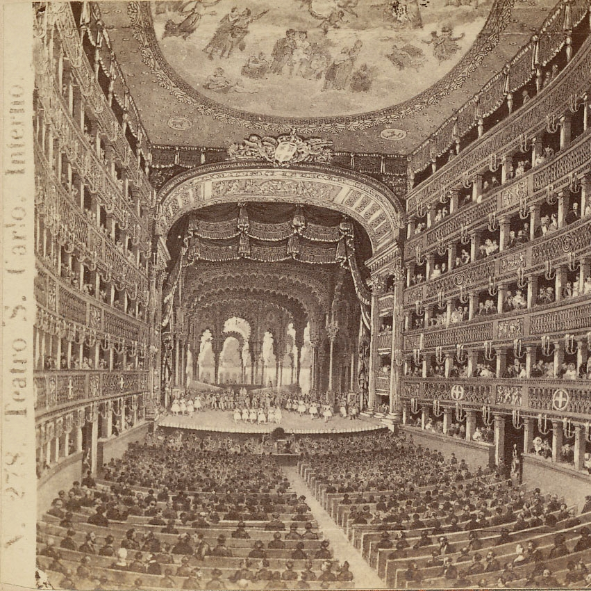 Giorgio Sommer (1834-1914), detail from: "Naples. San Carlo Opera House". Stereo card. Catalogue # 278. Whole image. Detail.